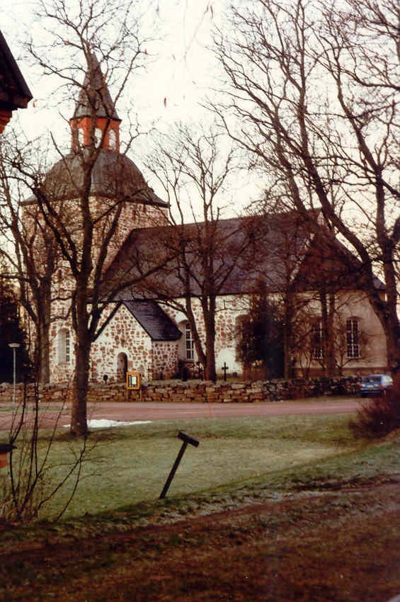 Saltvik Church in Saltvik, Åland, Finland